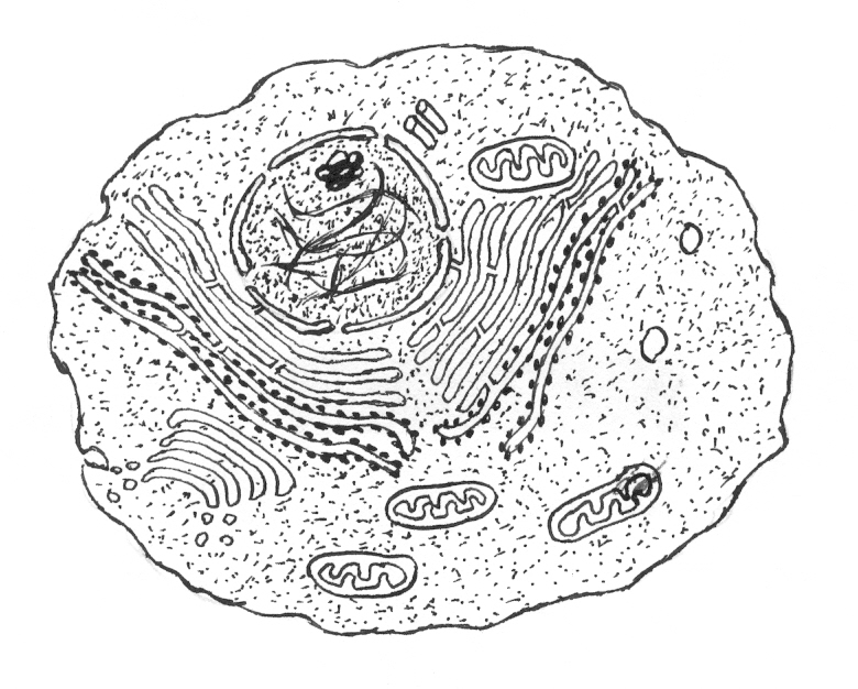 Typical animal cell with organelles